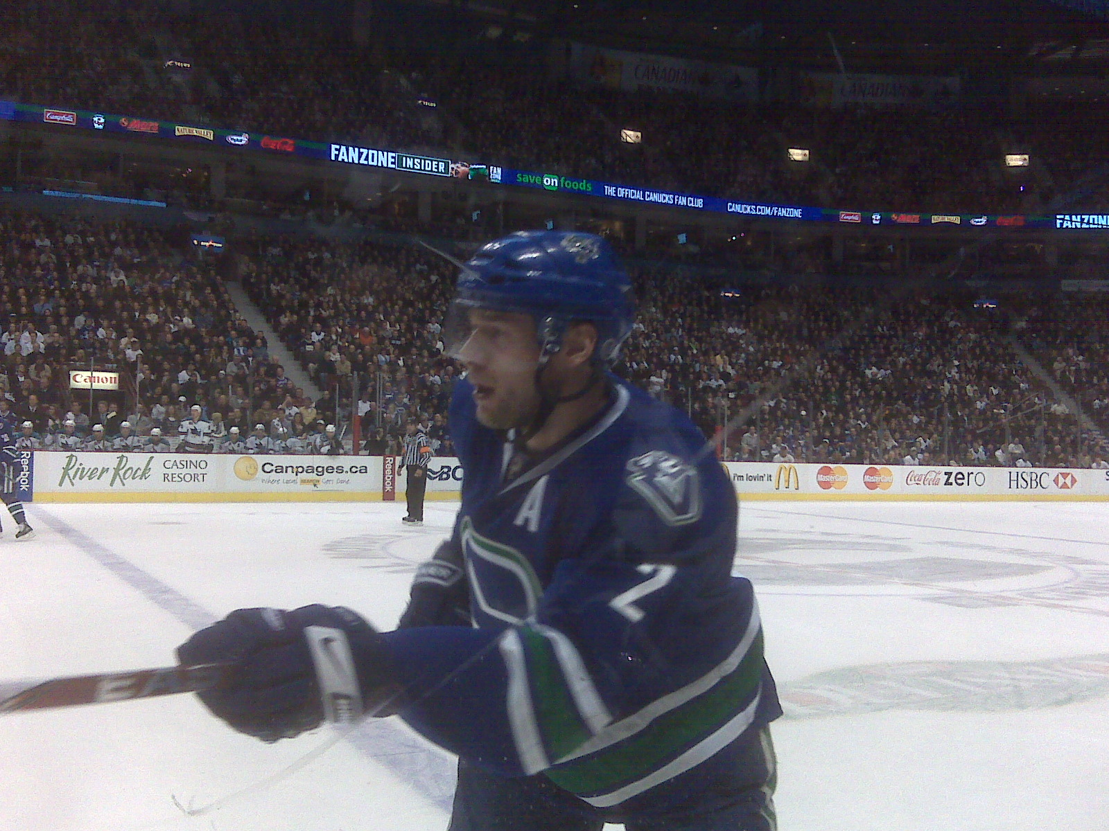 Mattias Ohlund of the Vancouver Canucks warming up at GM Place before playing the San Jose Sharks on March 7, 2009.